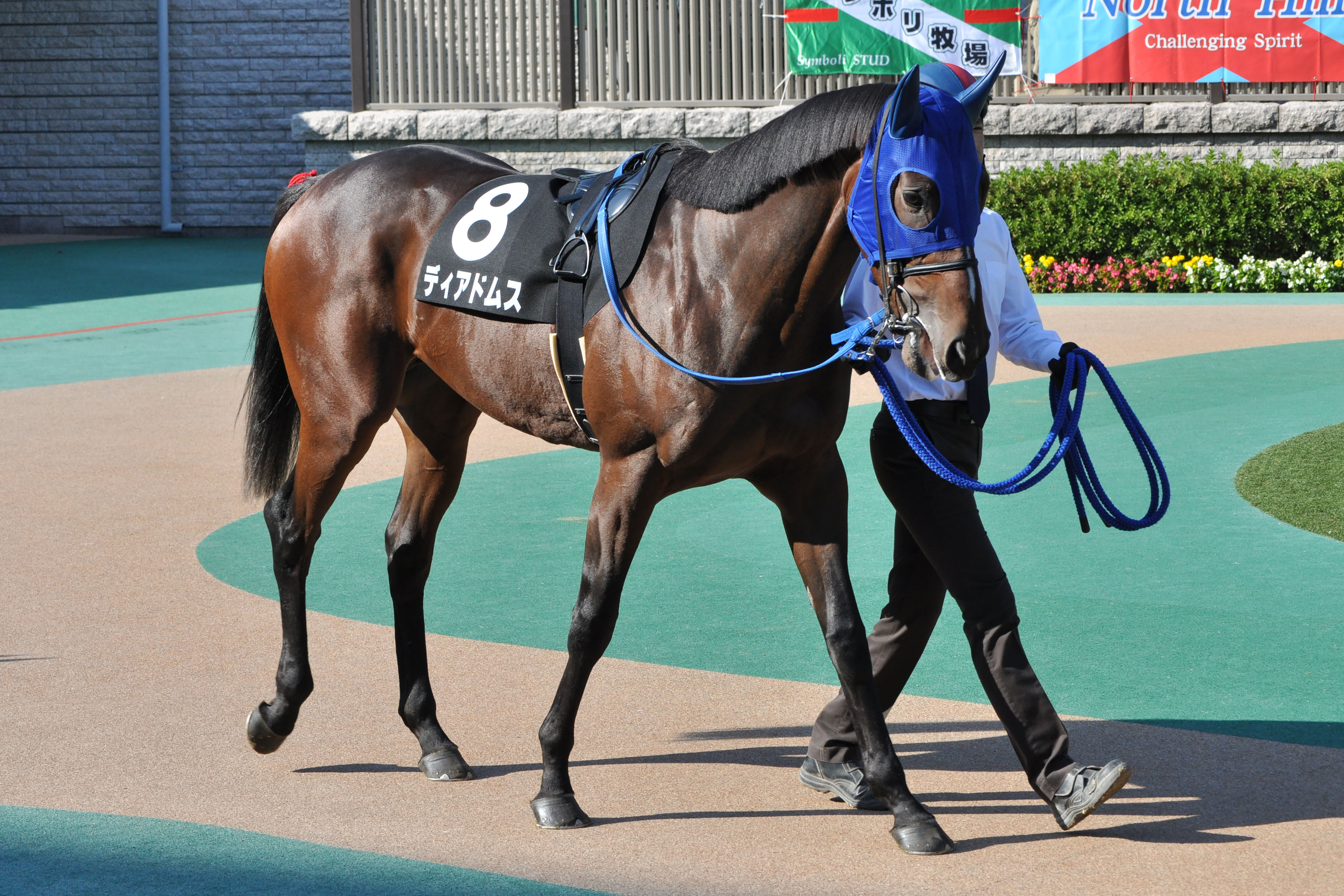 Japanese racehorse Dear Domus at Tokyo racecourse(2014-10-18).